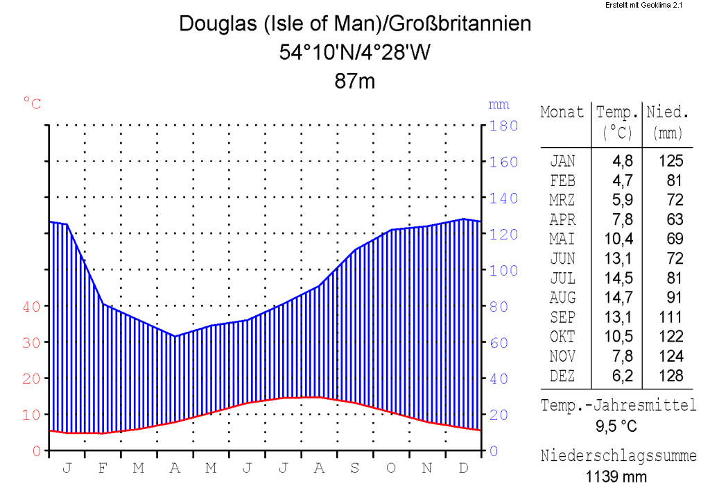 climate chart in the format by Walter and Lieth, metric, °Celsisus and millimeters, made with Geoklima 2.1